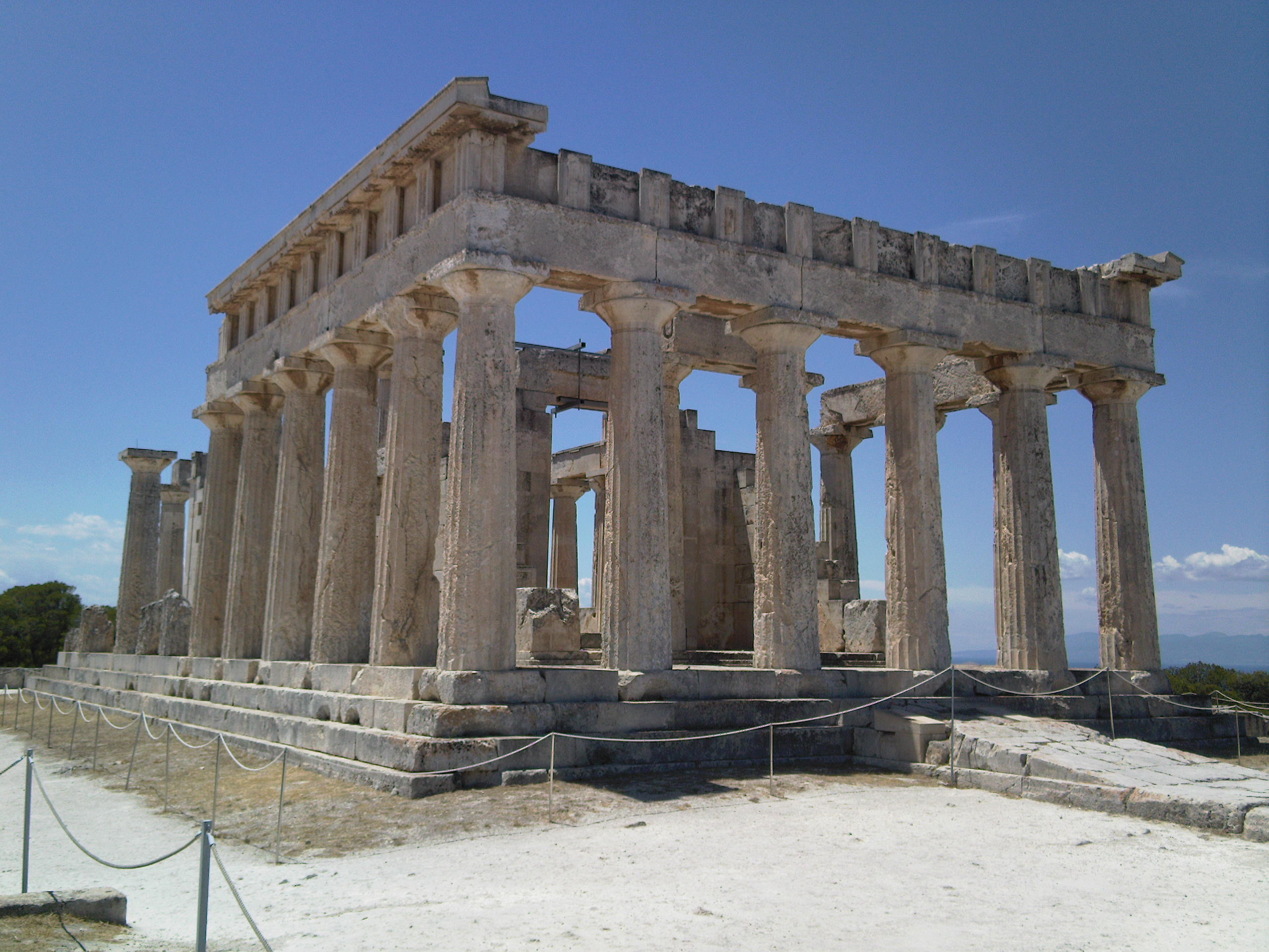 Temple of Aphaia on the island of Egina